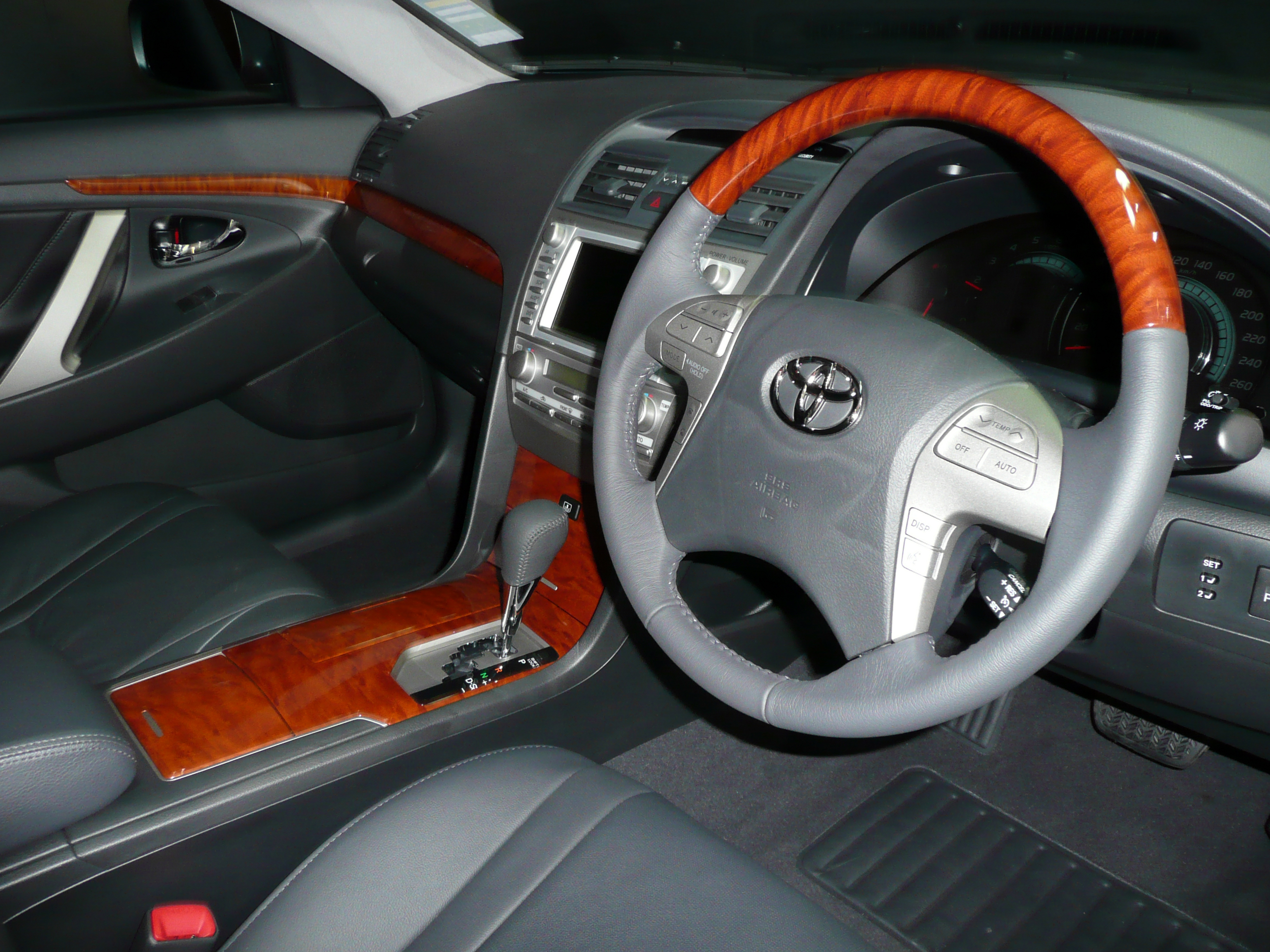 2007 Toyota Aurion (GSV40R) Presara sedan. Photographed at the 2007 Australian International Motor Show, Sydney, New South Wales, Australia.